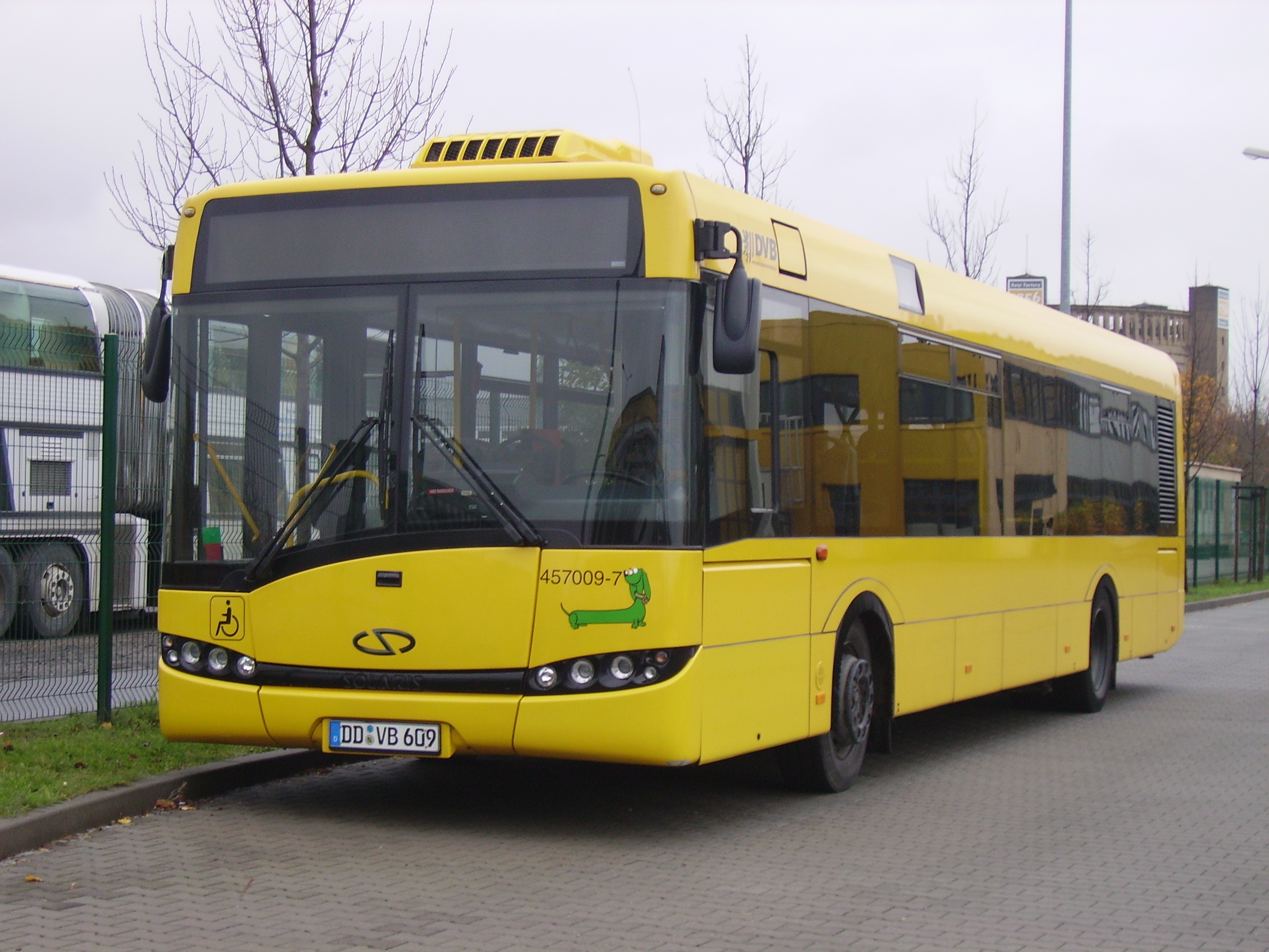 Solaris Urbino 12 bus (#457 009-7) in Dresden, Germany. Built 2005, DVB Dresden operator.